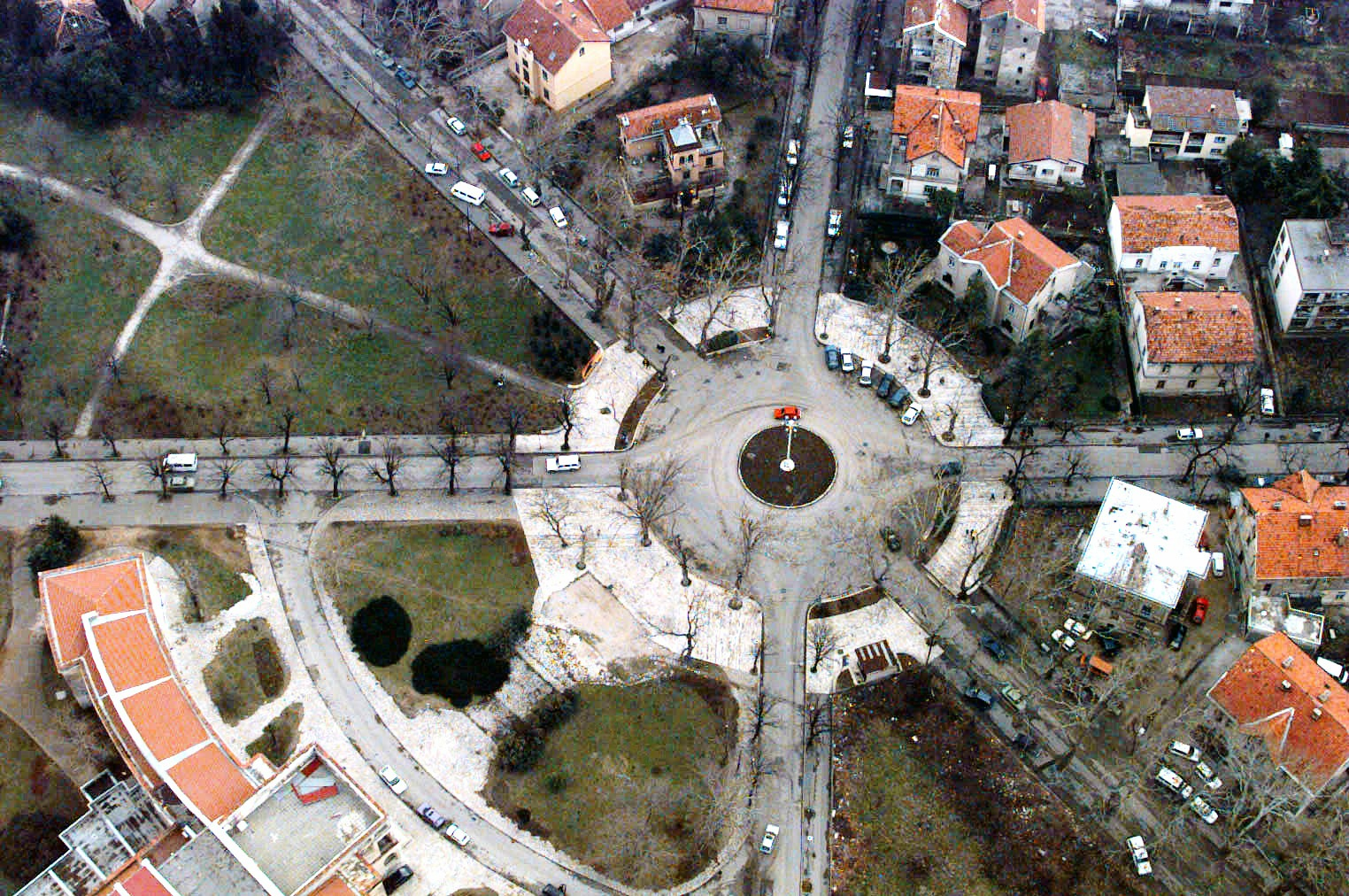 1997: Aerial photograph of Mostar.